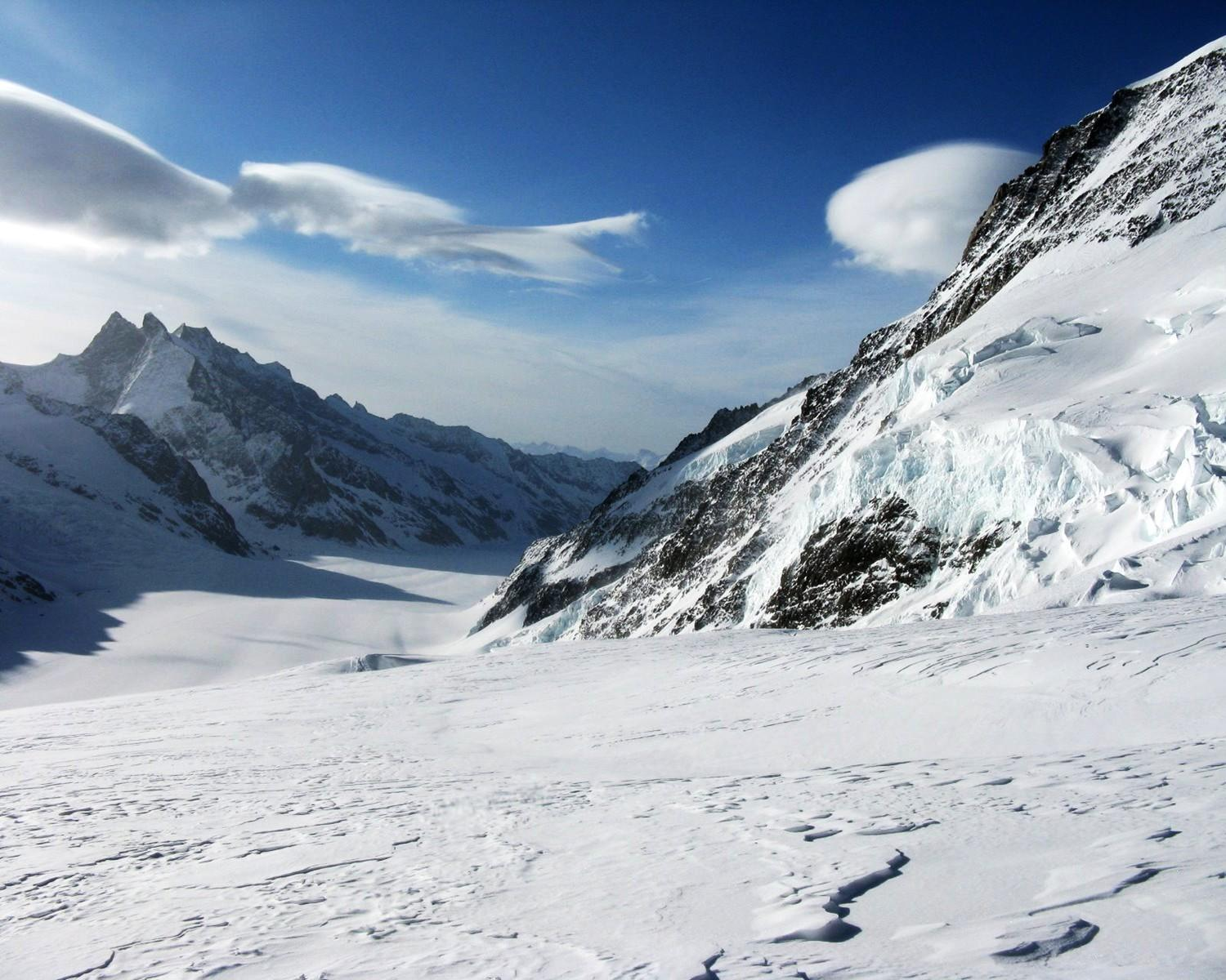 View of Konkordiaplatz from Jungfraufirn, Fiescher Gabelhorn and Wannenhorn visible on the the left, Bernese Alps